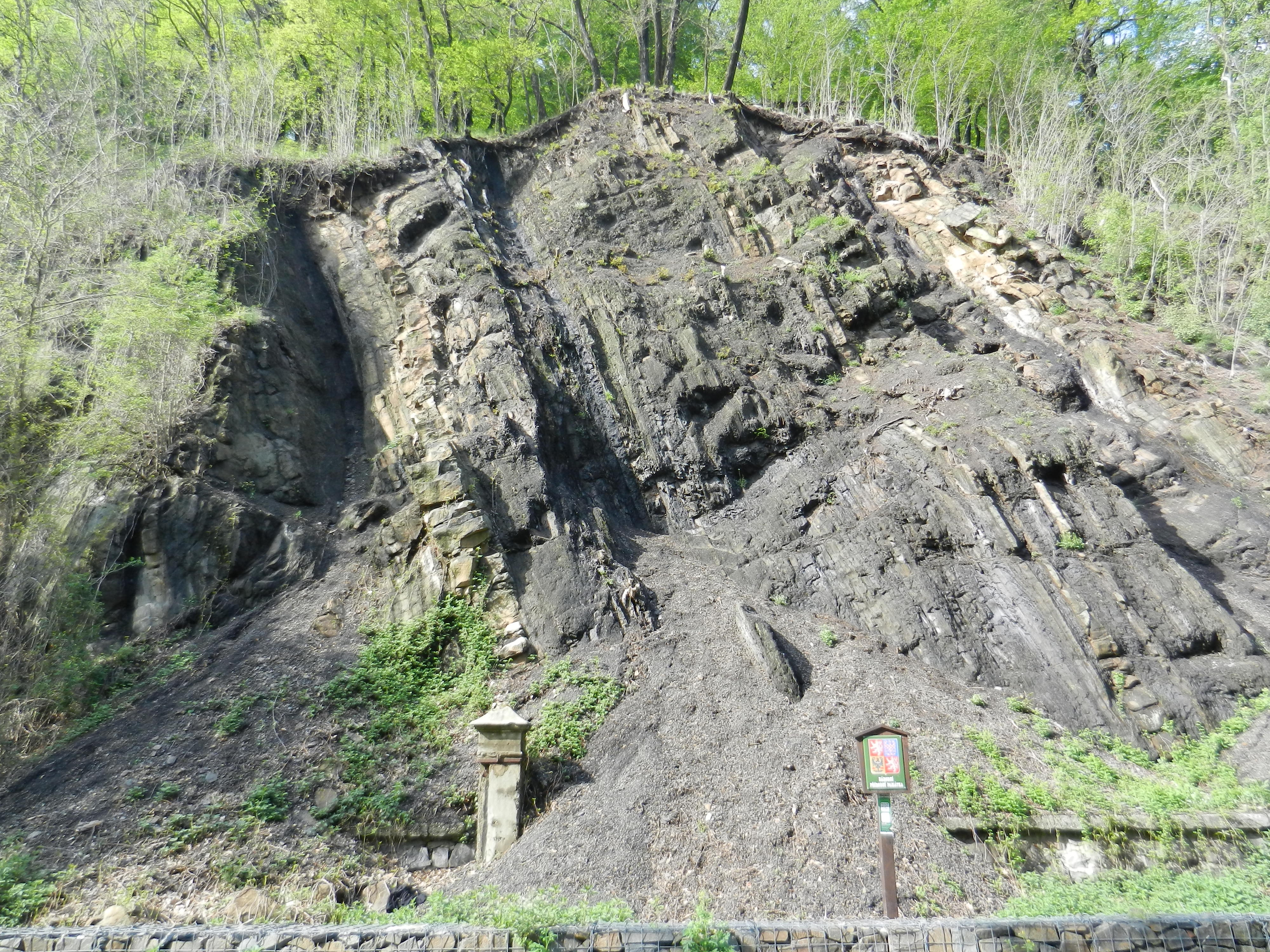 National natural monument Landek in Ostrava town, Czech Republic